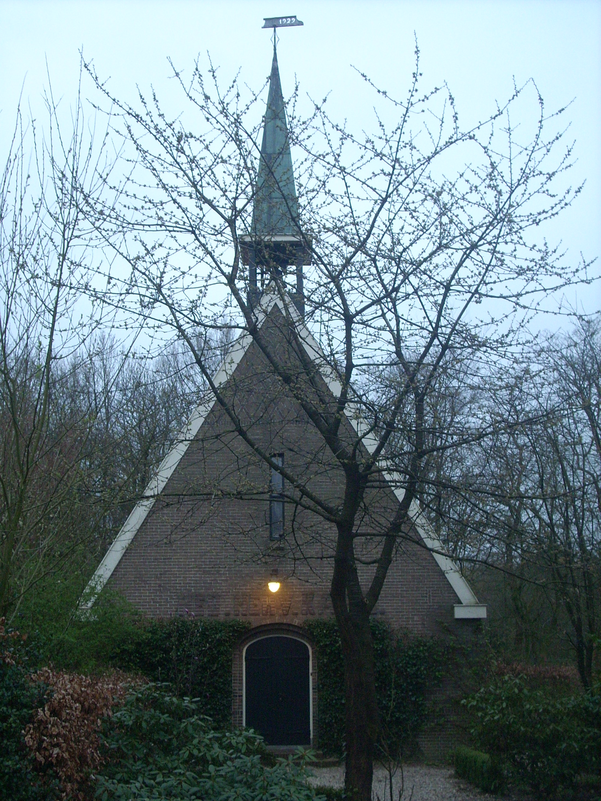 Witteveen (Drenthe) church